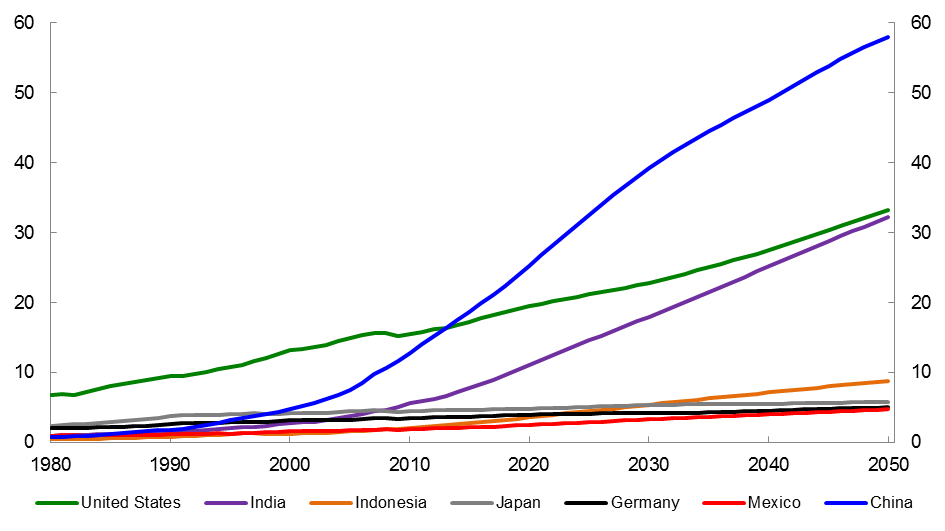 China overtakes the United States in 2014, Indian GDP might catches up to US by 2050, Indonesia could be the fourth largest economy in the mid 2030s.